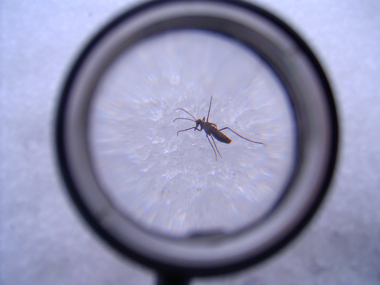 Boreus hiemalis